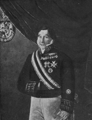 Grabado de José María de Alós y de Mora